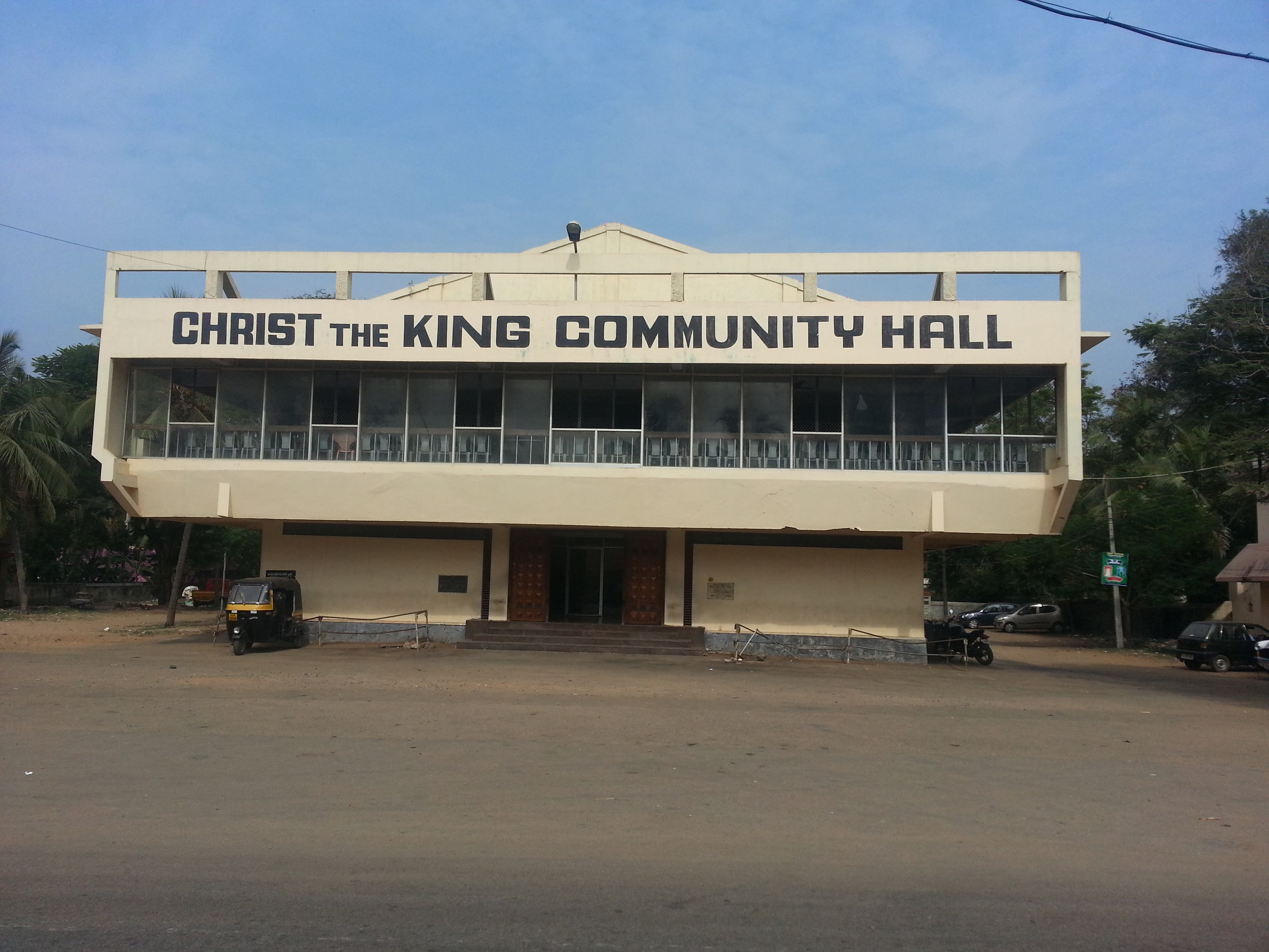 Christ The King Community Hall Vettukad